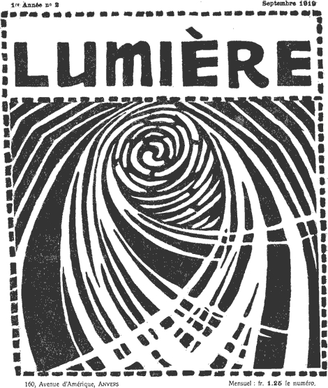 Cover of the artistic and literary journal Lumière published in Antwerp from 1919 to 1923